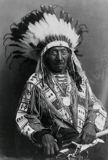 Chief Red Cloud, half-length portrait, seated, facing front; holding peace pipe